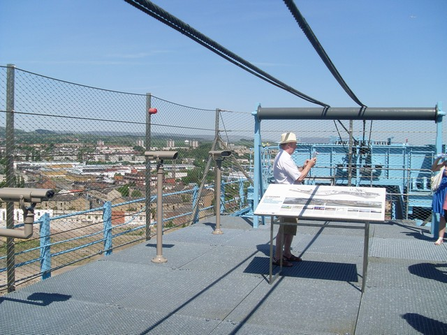 Viewing platform of the Clydebank Titan Crane Offers fine views of Glasgow Airport, River Clyde, Glasgow and Clydebank.